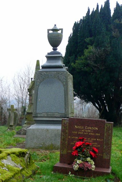 Noele Gordon The grave of actress Noele Gordon, most famous for playing Meg Richardson in the Midlands soap "Crossroads".